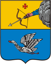 Nolinsk (Kirov oblast), coat of arms (1781)